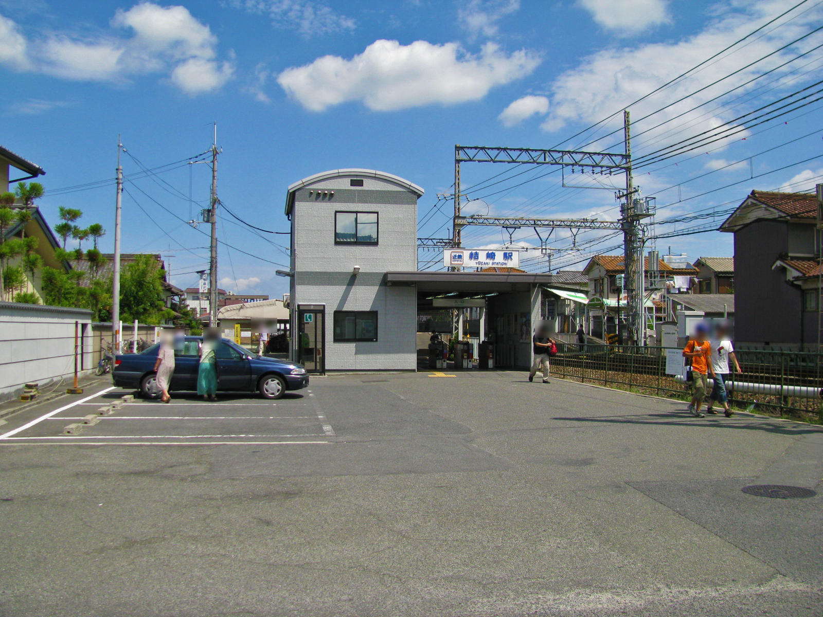 Yuzaki Station on Kintetsu Kashihara Line